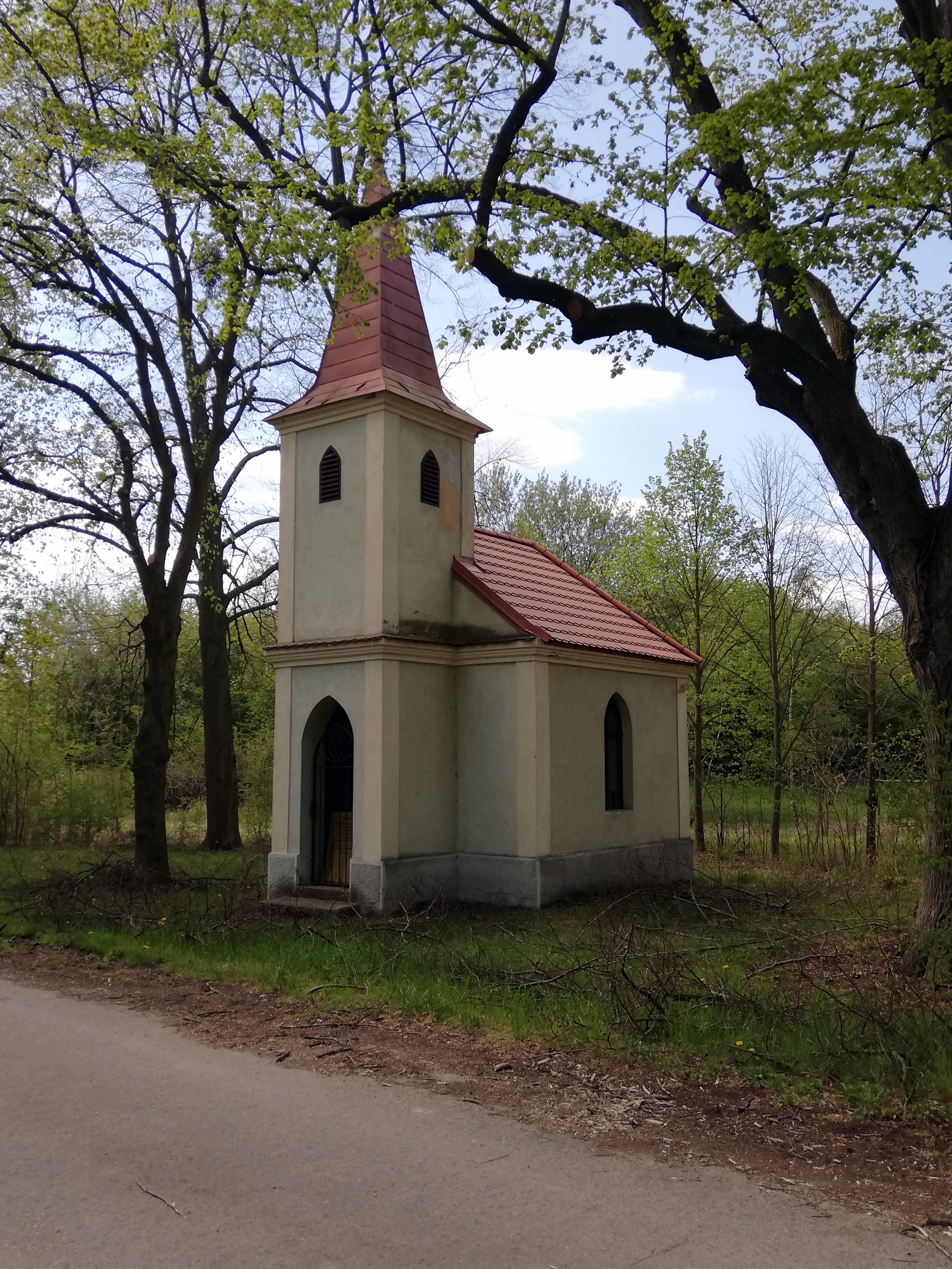 Canceled village Knín - village chapel of St. Wenceslas